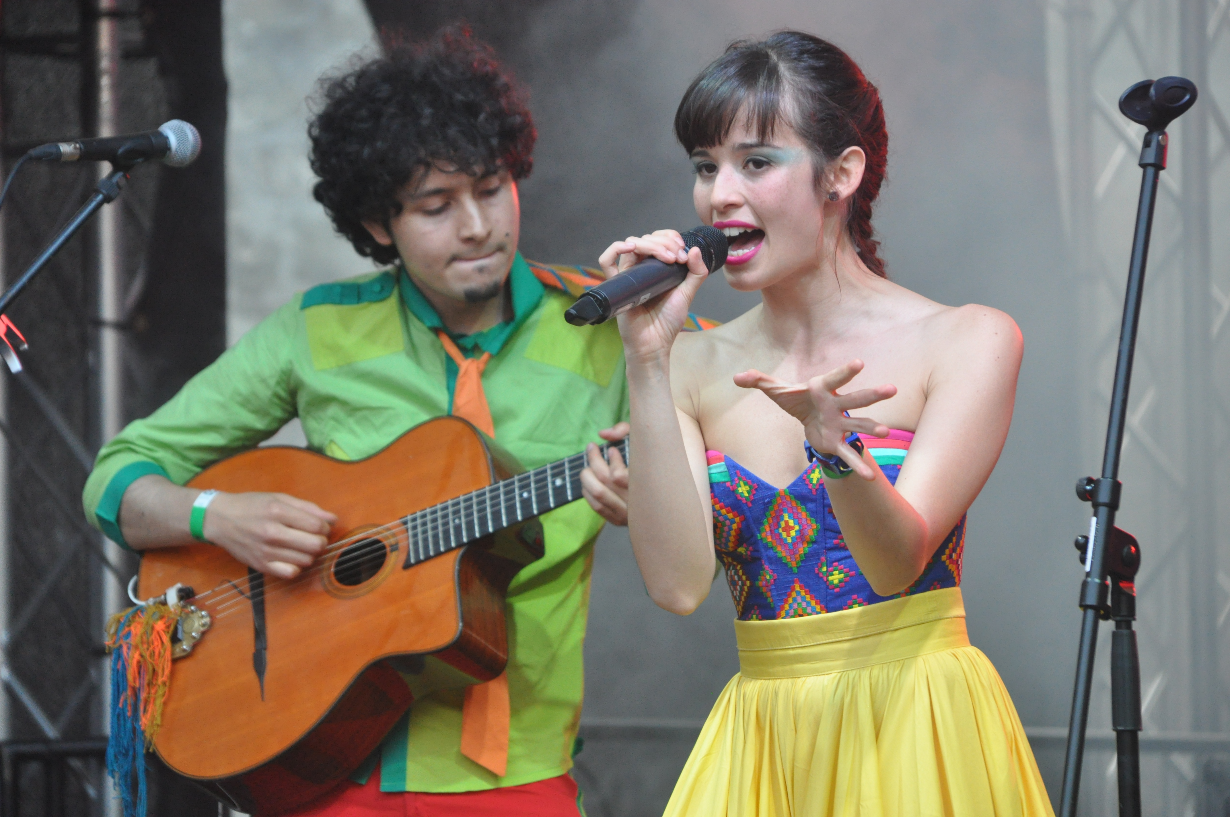 Monsieur Periné (Columbia), appearence at the 11th world music festival "Horizonte" 2013 at the fortress Ehrenbreitstein, Koblenz, Germany